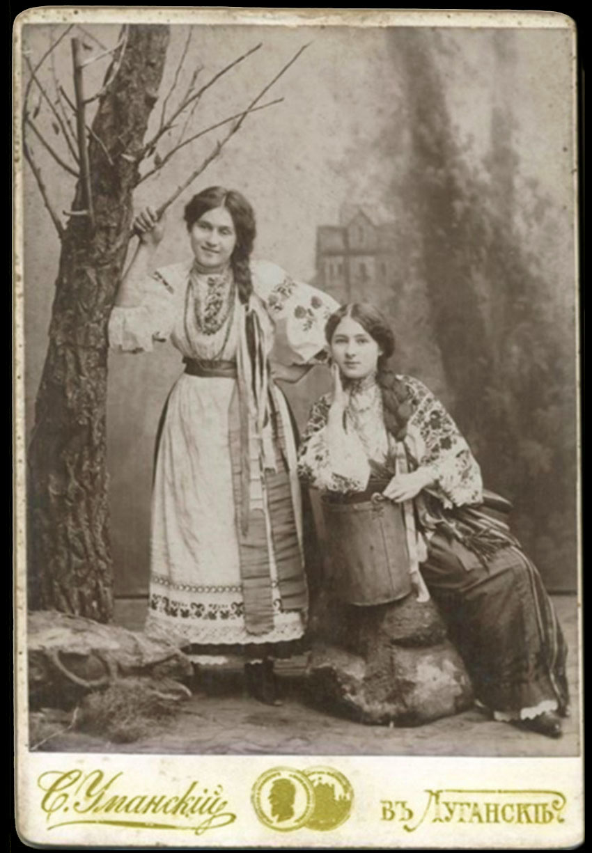 The girls wearing holiday outfits from Luhansk (1900-s)